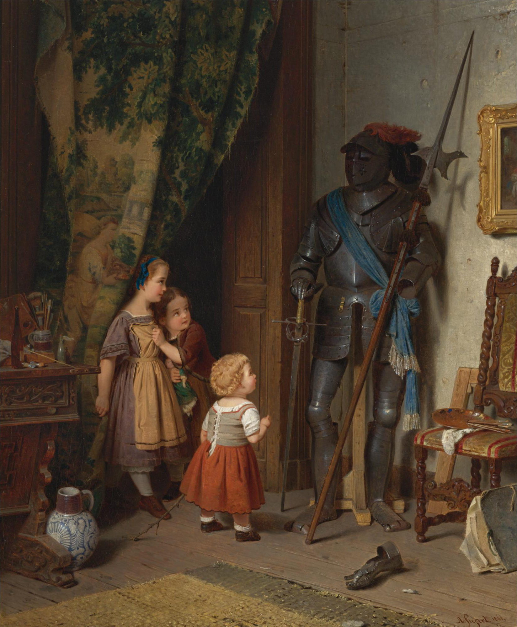 Kinder in der Künstlerwerkstatt